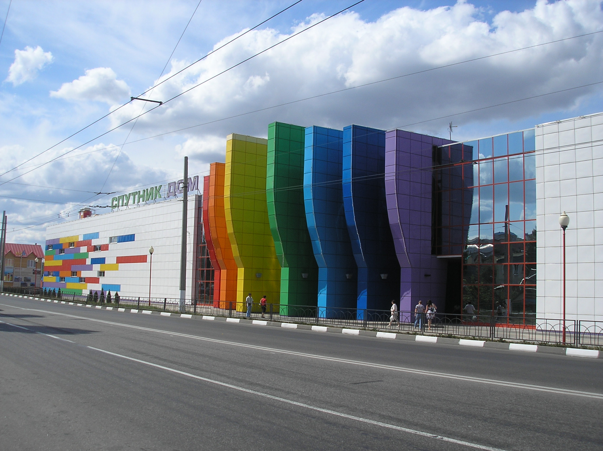 Спутник Дом. Белгород